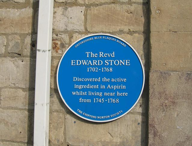 Blue plaque on the front of 2 West Street, in Chipping Norton, Oxfordshire, commemorating the Reverend Edward Stone (1702–68), who discovered the active ingredient in aspirin. The plaque is mounted on 236390.